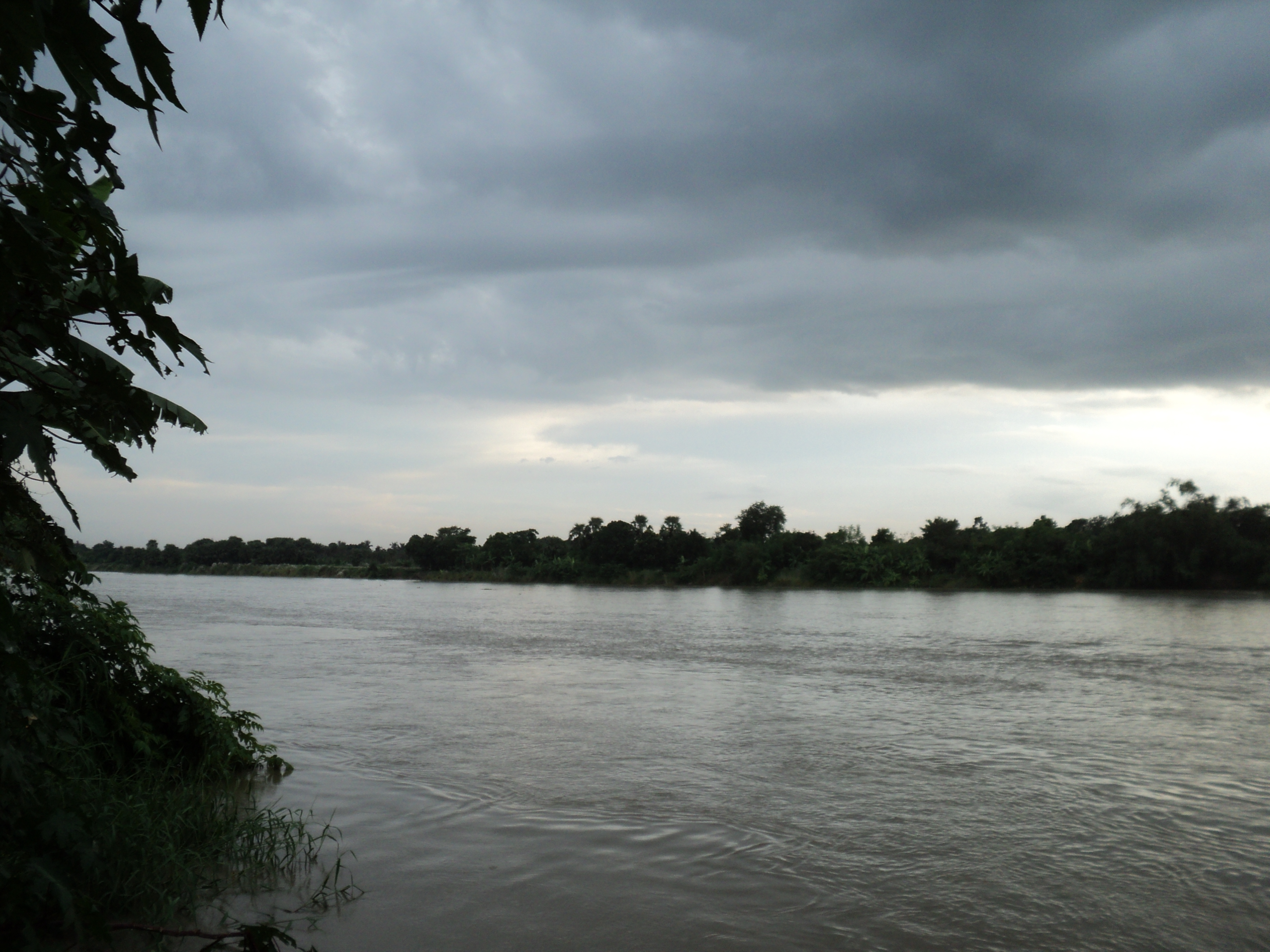 Bhagirathi River Behind Hazarduari Palace (Former Palace of Siraj Ud Doula, Nawabs of Bengal) in Murshidabad of West Bengal State of India